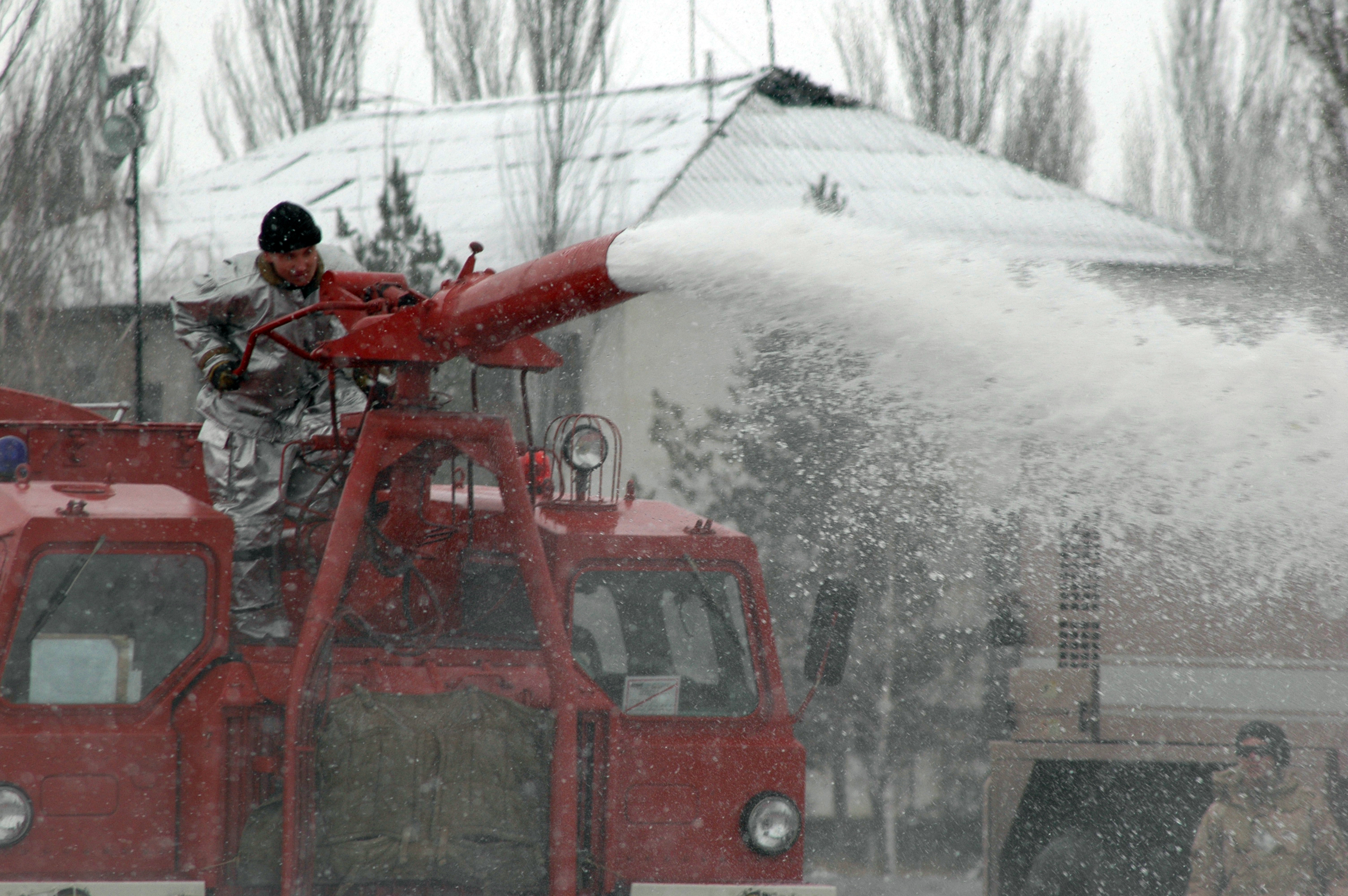 Manas International Airport firefighter Stas Suleymanov demonstrates to Airmen the use of the Kyrgyz AA-60 fire engine water canon using water pumped from a 376th Air Expeditionary Wing fire truck. The 376th AEW fire department routinely trains with their MIA and other Kyrgyz counterparts. (U.S. Air Force photo/Master Sgt. Daniel Nathaniel) VIRIN: 070225-F-6504N-002